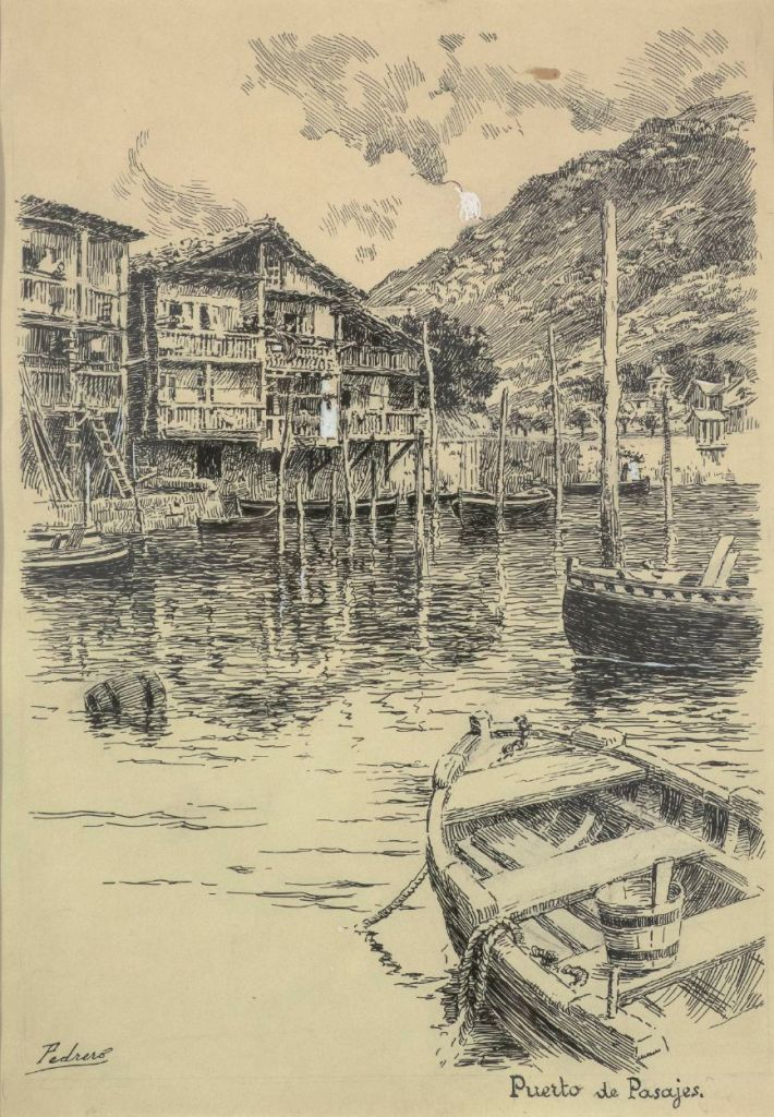 dibujo original, Puerto de Pasajes, tinta sobre papel, 33,5 x 24 cm, por Mariano Pedrero, foto Fundación Caja de Burgos, posteriormente publicado en el Almanaque de la IEA para 1913